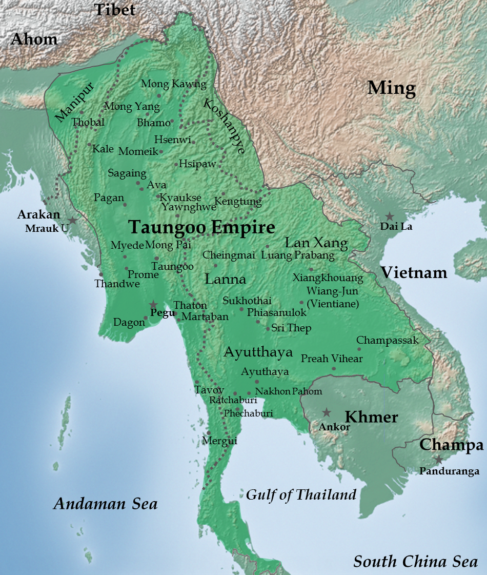 Taungoo Empire at its highest extent during the reign of King Bayinnaung (1551-1581)